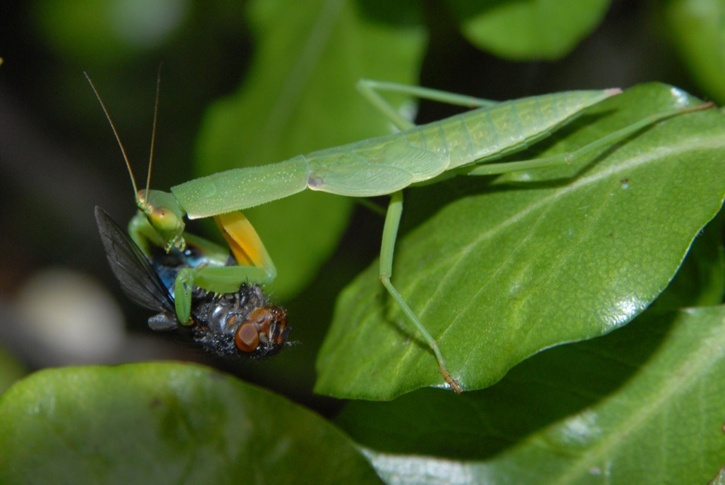 Orthodera novaezealandiae (New Zealand praying mantis) nymph with a blue-bottle blowfly (Calliphora species). Taken in Hoon Hay Christchurch. "Note the blue coloration on the underside of the mantid's forelegs---this is a characteristic separating the native New Zealand species from the South African species, Miomantis caffra, that established in New Zealand in the 1970s."